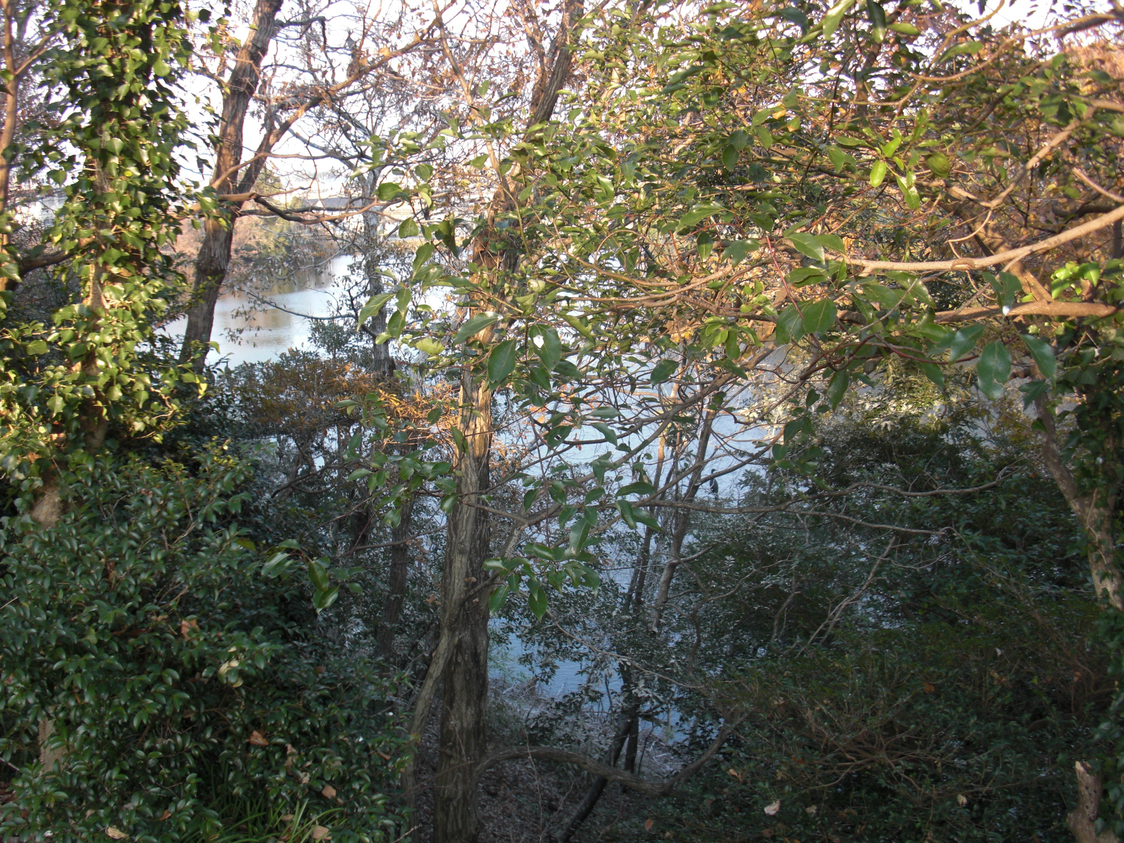 This is the Futatsu pond in Ise, Mie, Japan.